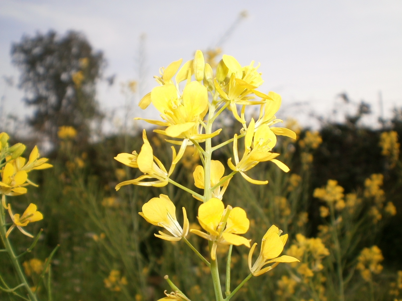 INDIAN MUSTARD FLOWER.